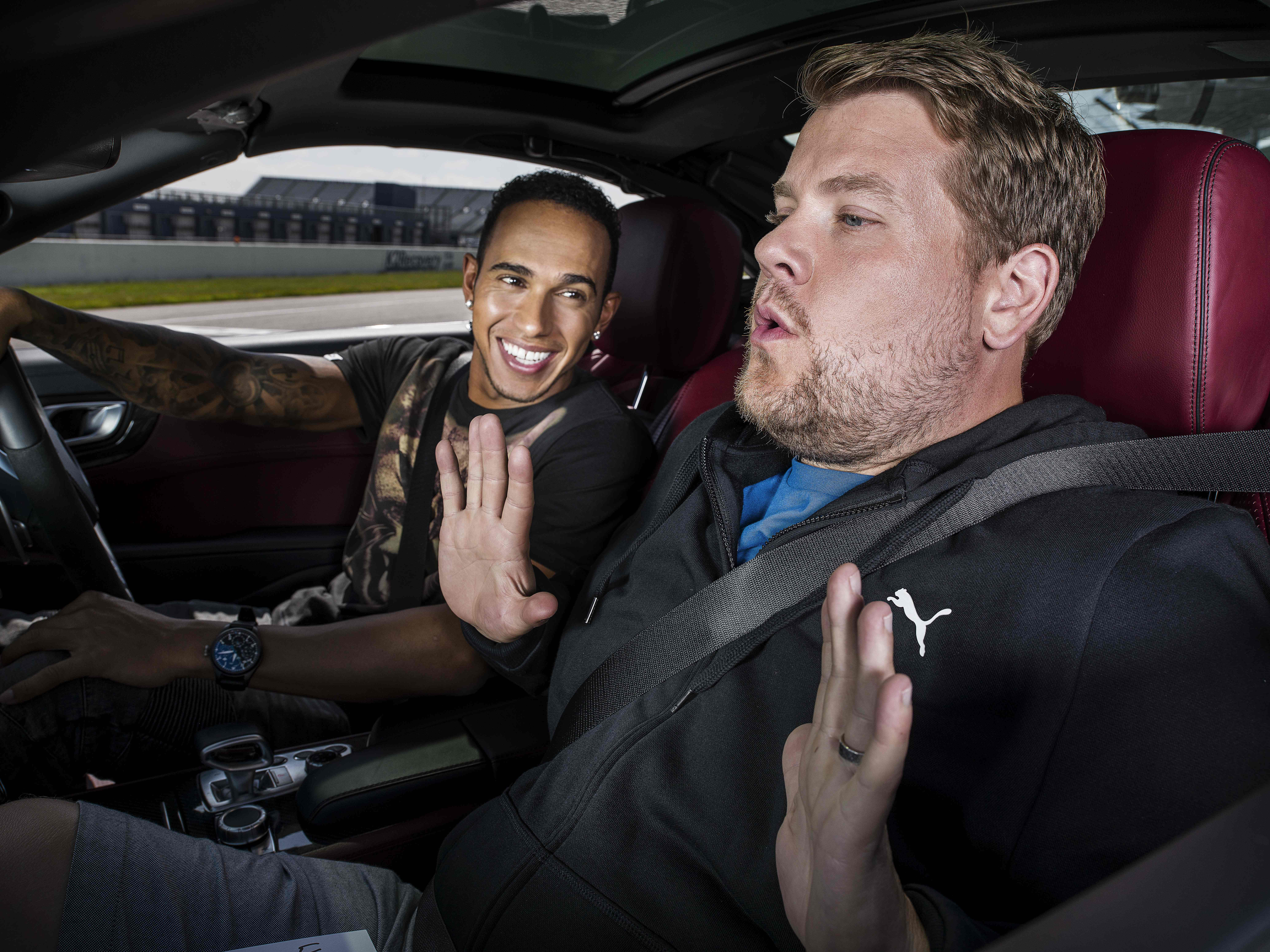 James Corden interviews Lewis Hamilton around the track at Rockingham Motor Speedway for Puma Forever Speed. The car is a Mercedes-Benz SL 63 AMG.